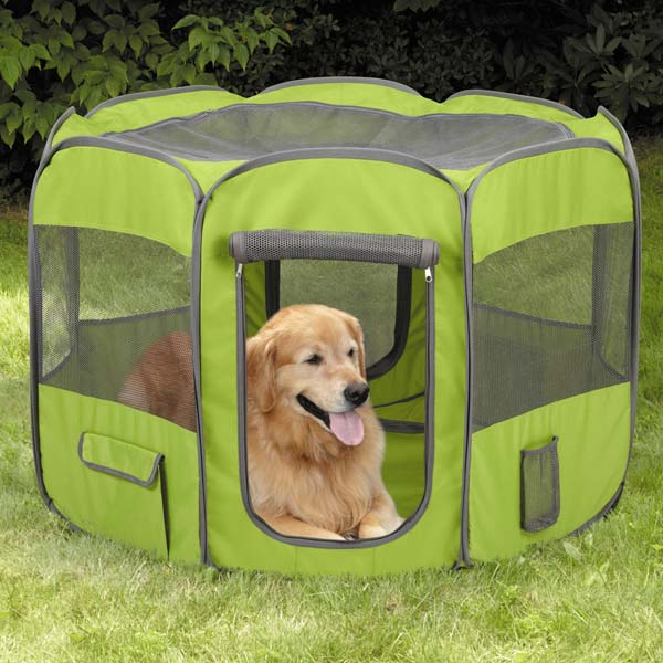 Dog lounging in an Insect Shield for Pets Fabric Exercise Pen